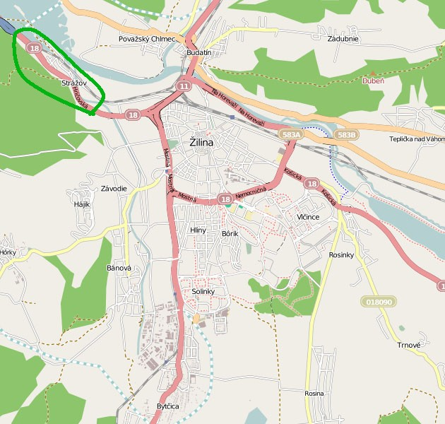 Zilina-Strážov map location